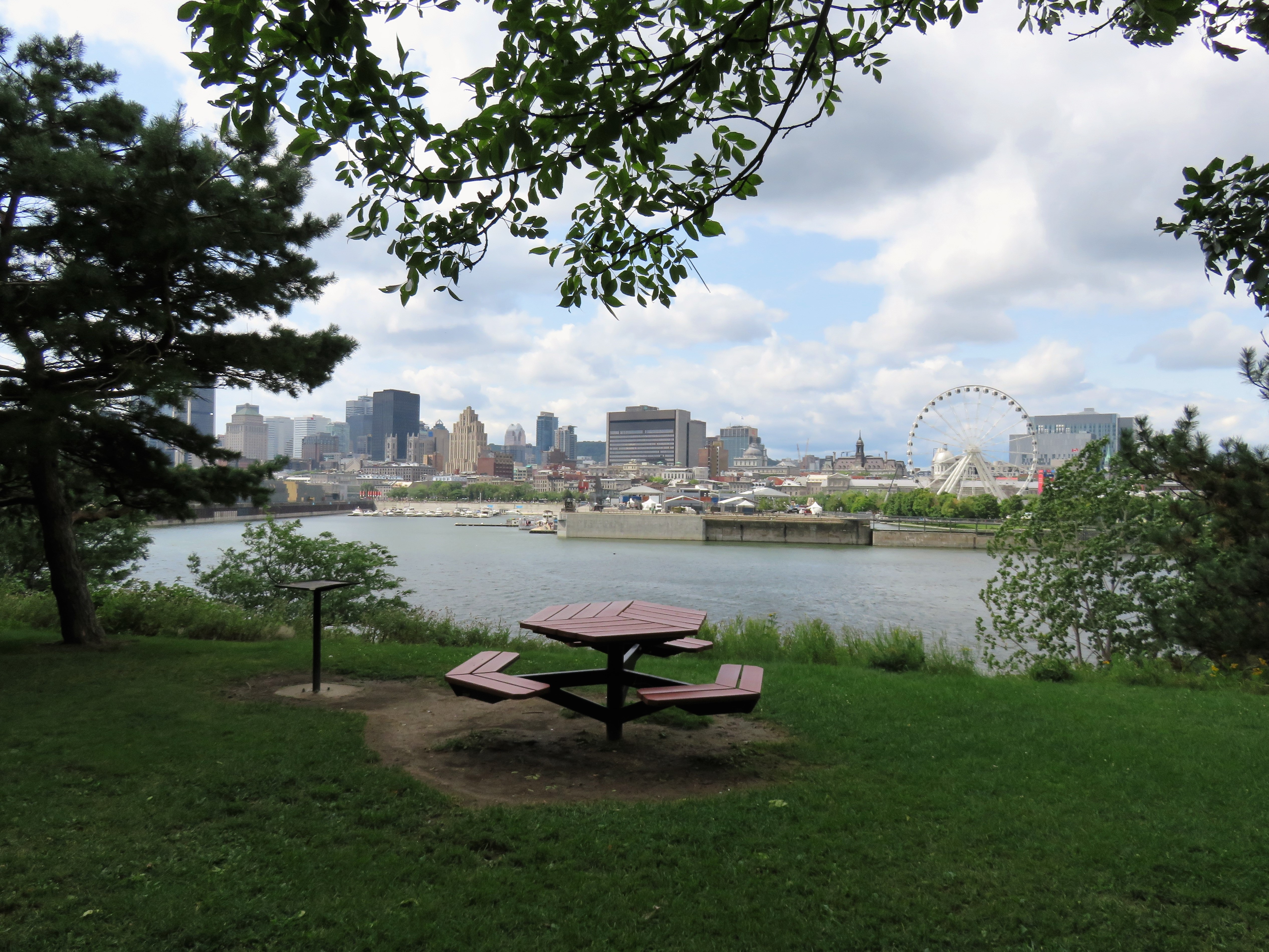 View of Montreal seen from the Parc de Dieppe, Montreal, Quebec, Canada.